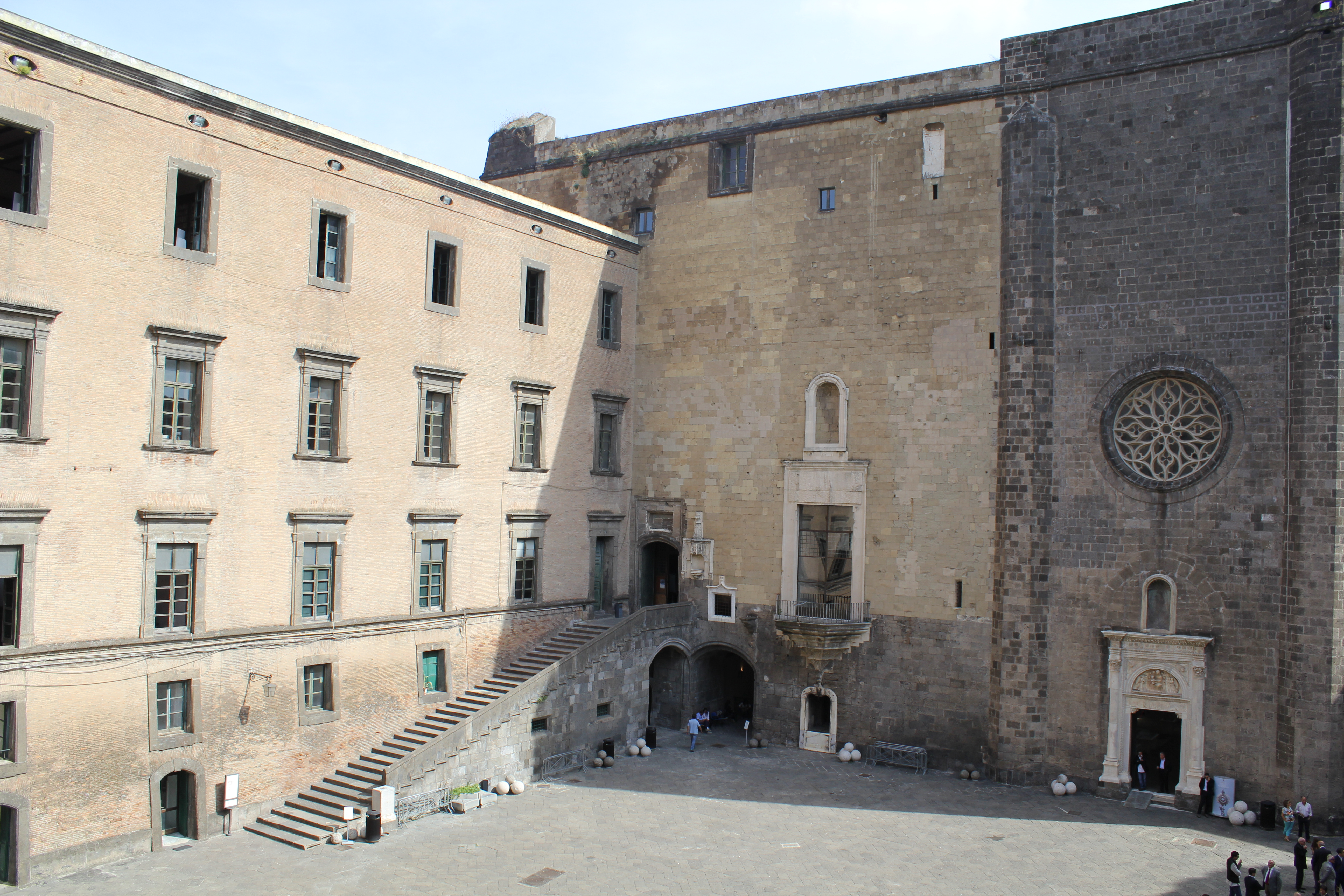 Castel Nuovo (16) This file was generated using equipment from Wikimedia UK, a Wikimedia local chapter.